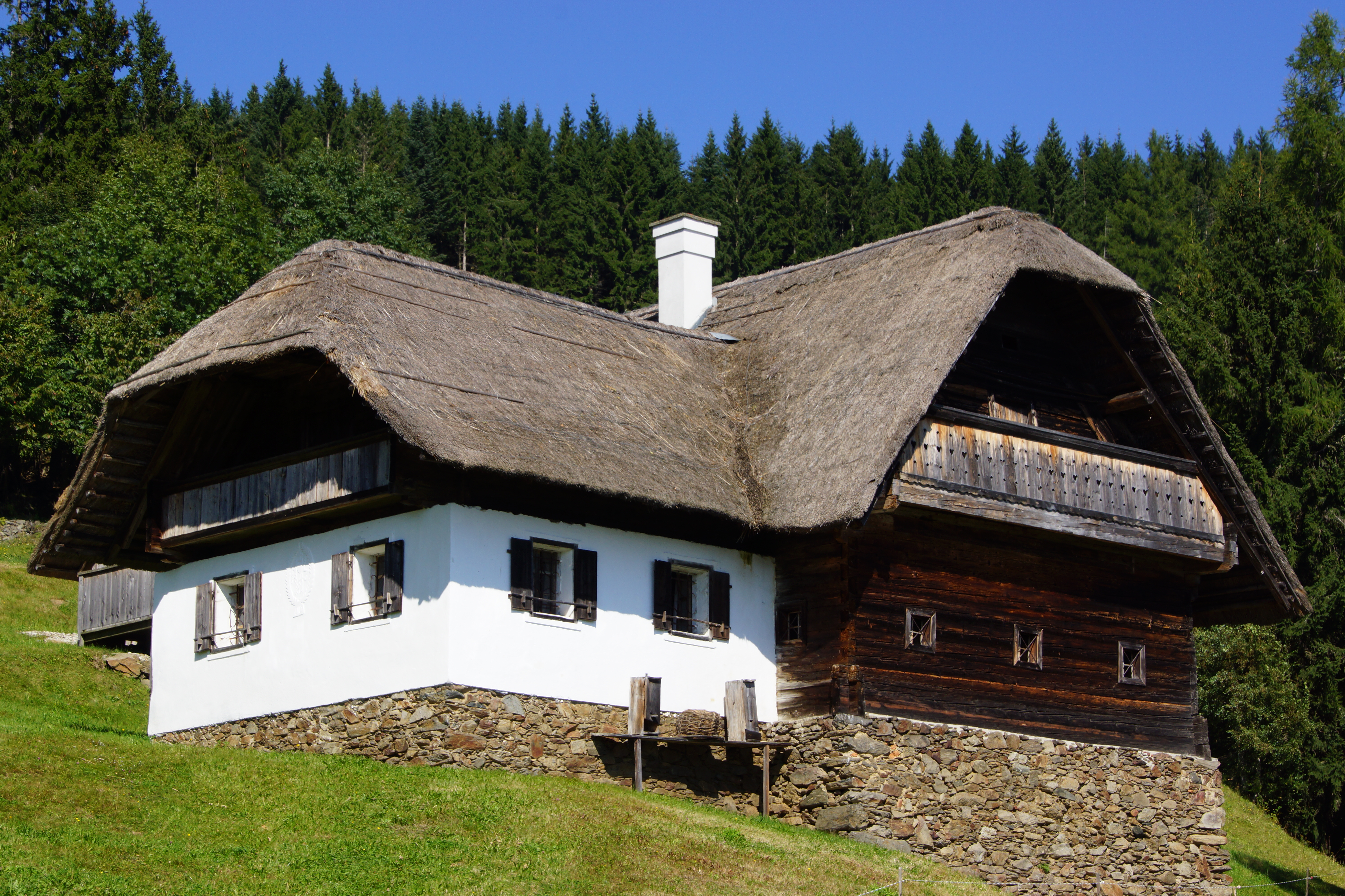 Rauchstubenhaus, sogen. Schirnerhof. Der Hof diente als Drehort für die Roseggerserie Als ich noch ein Waldbauernbub war.